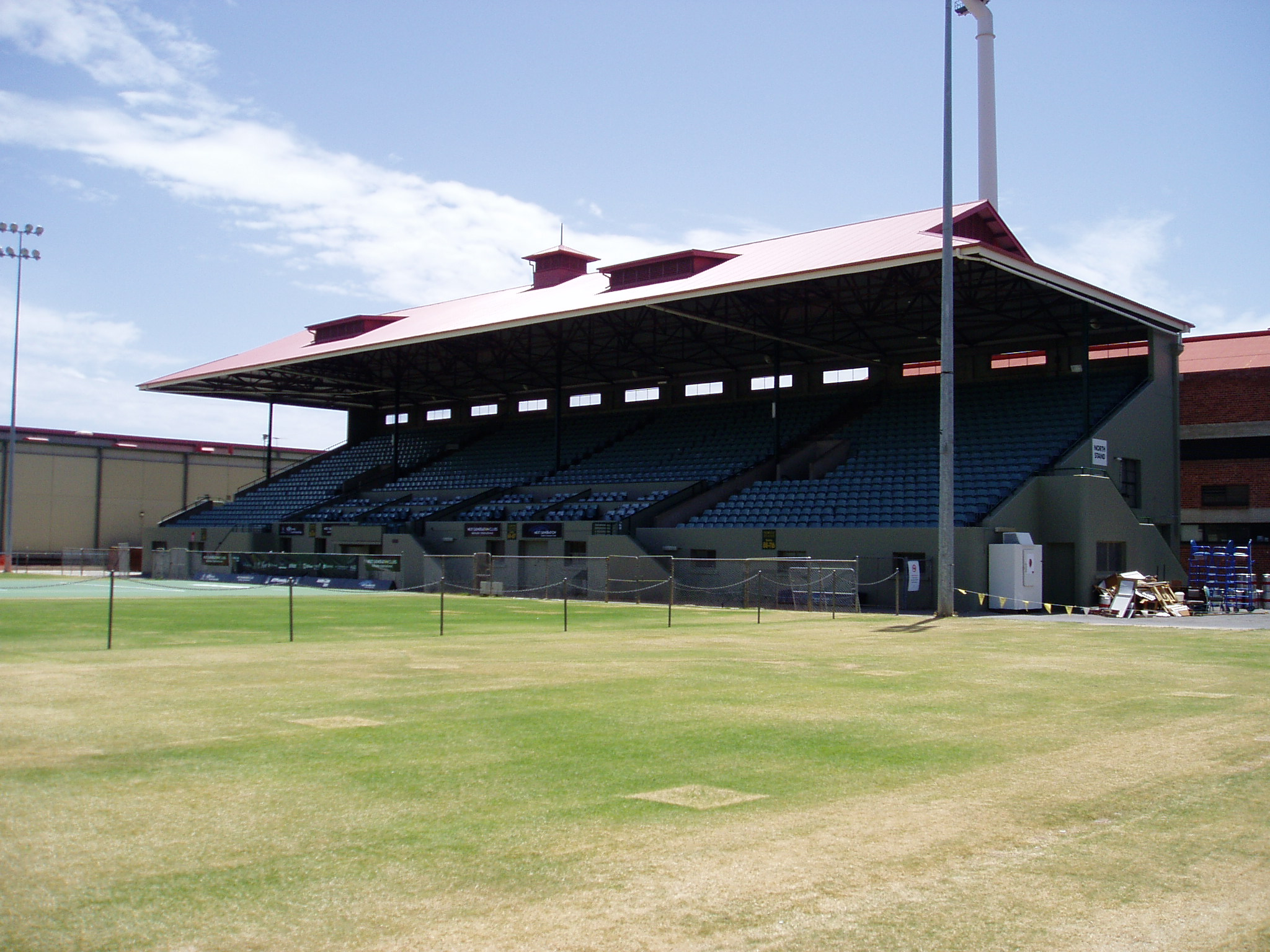 Memorial Drive Tennis Courts. Taken in January 2007